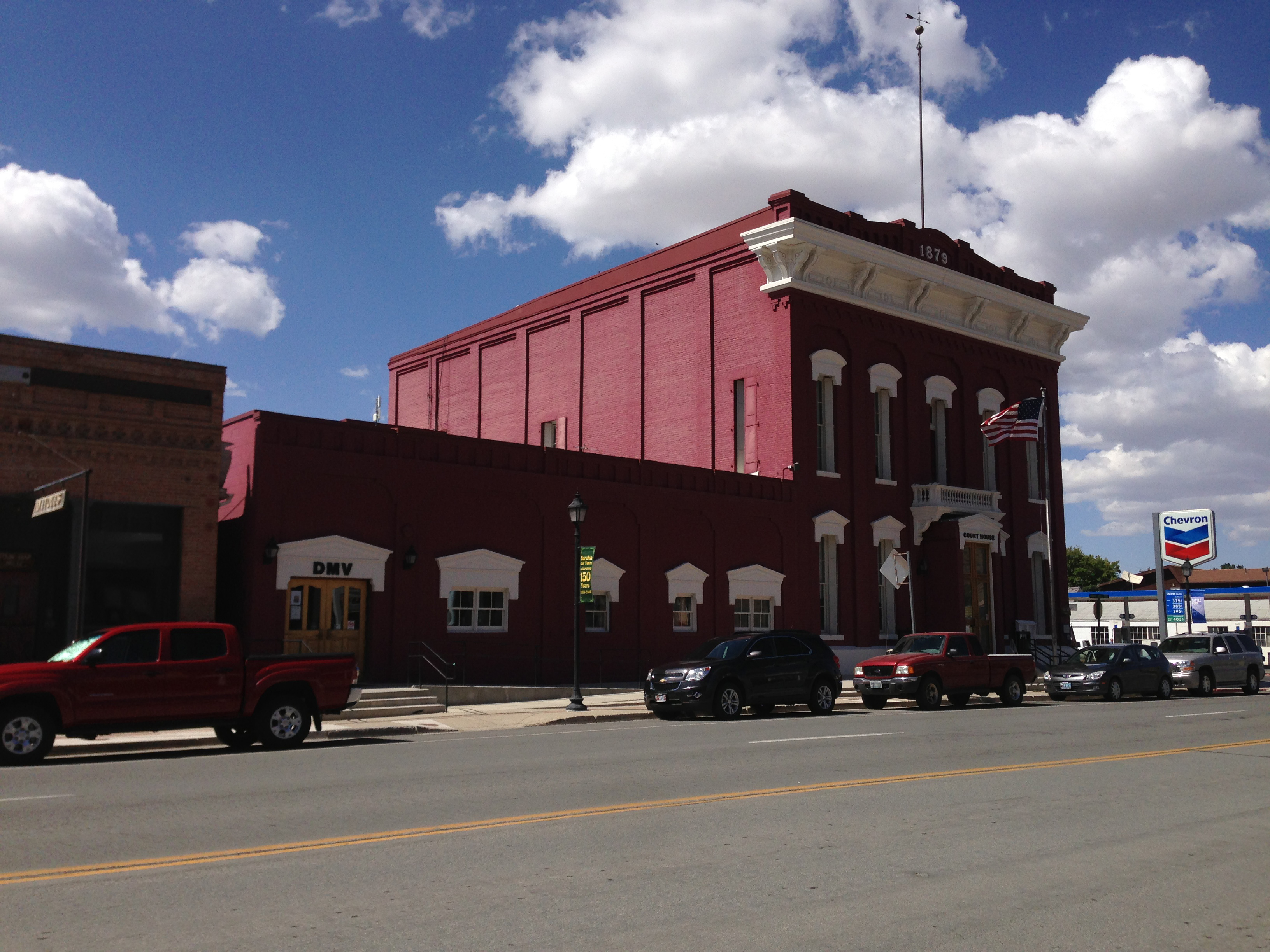 The Eureka County Court House on U.S. Route 50 in Eureka, Nevada